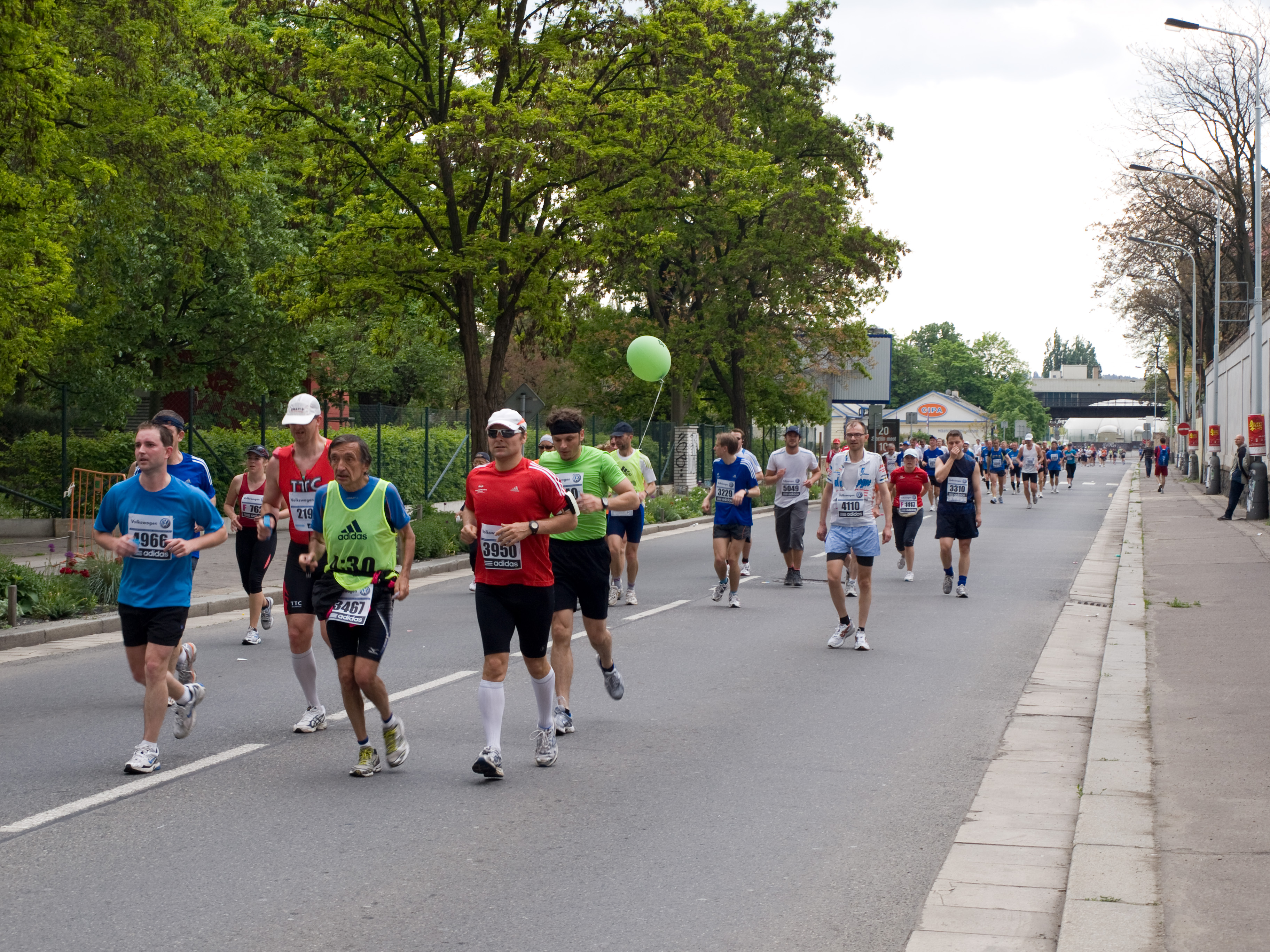 Hořejší nábřeží, cca 30 km, Prague International Marathon 2010